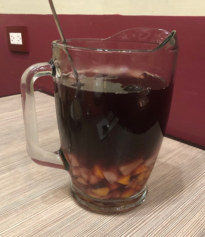 Clericot drink in Puebla, Mexico. It includes red wine, carbonated water, and fruits.